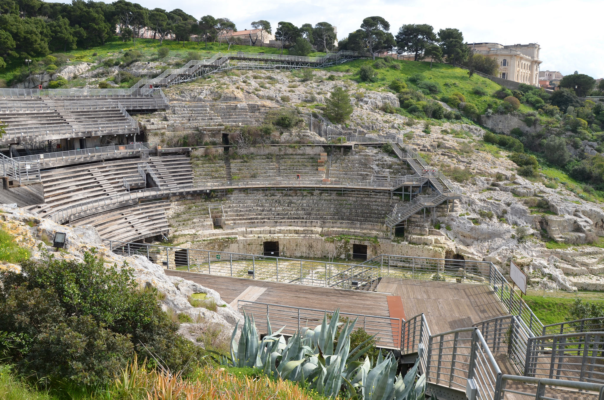 Roman amphitheatre, half carved in the rock in the 2nd century AD, Caralis (Cagliari), Sardinia.